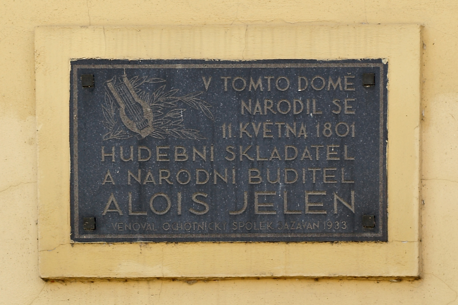 Plaque of Czech composer Alois Jelen on his birth house in Světlá nad Sázavou